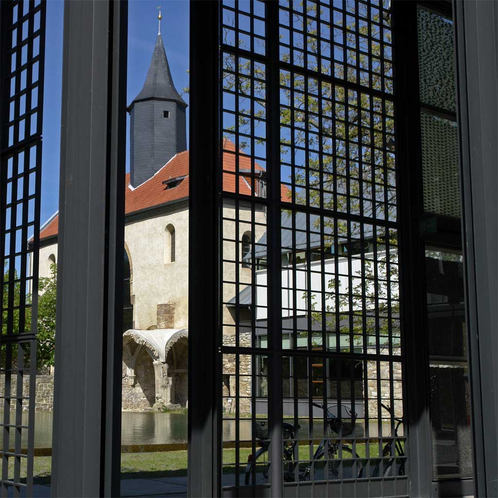 Germany. Volkenroda. Christus-Pavilion.